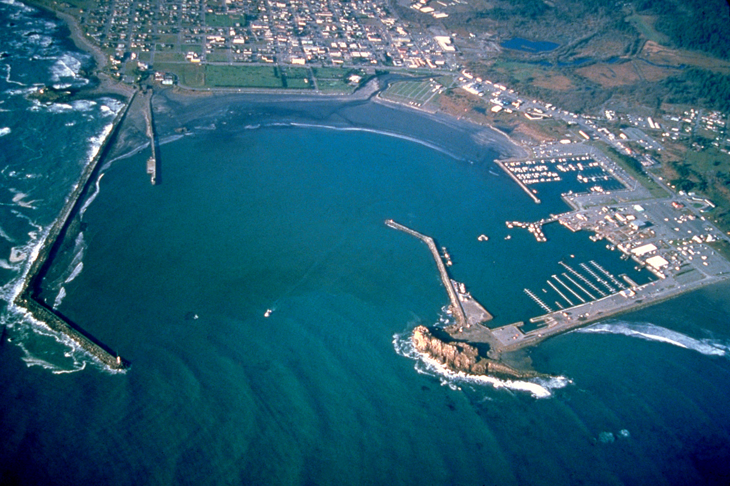 Aerial view of the breakwaters and harbor at Crescent City, Del Norte County, Califiornia, USA. View is to the north-northwest. Coordinates: 41°44′38.41″N 124°11′31.3″W / 41.7440028°N 124.192028°W